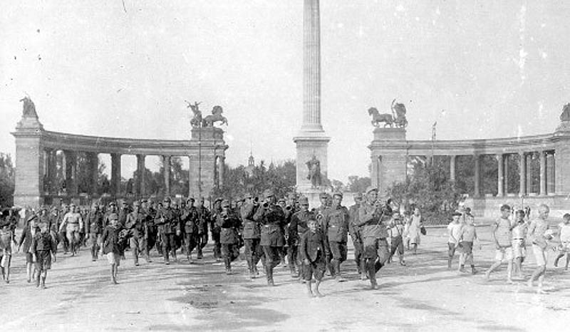 Romanian troops followed by Hungarian children in Budapest (1919)